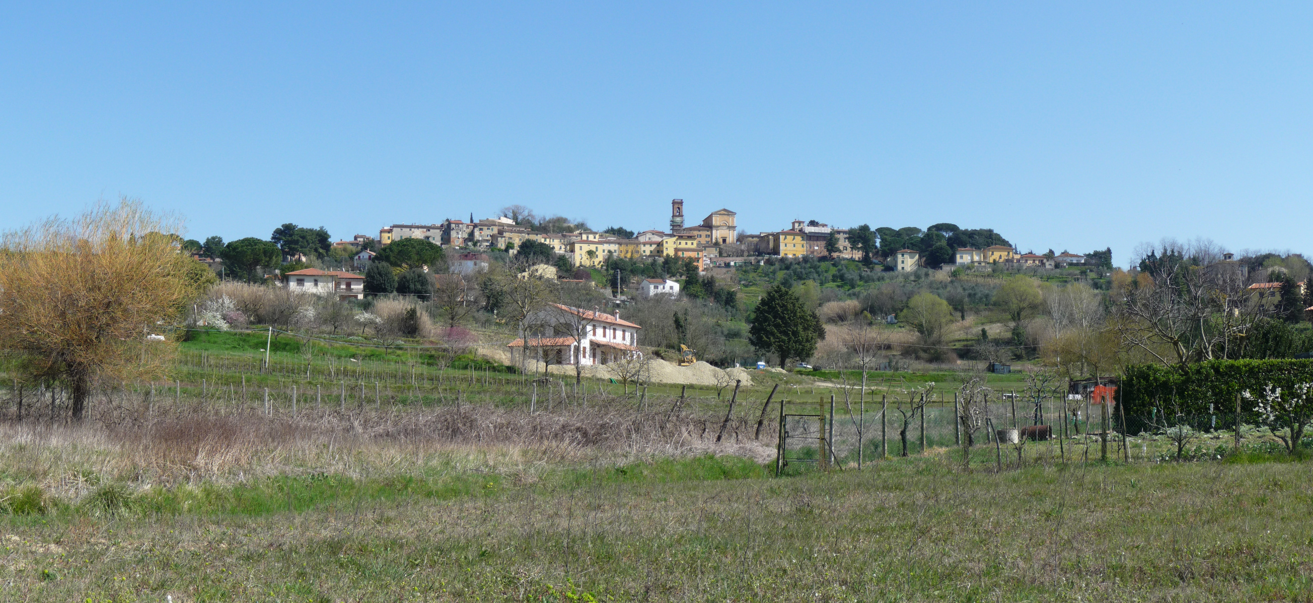 Panorama of Lorenzana, Province Pisa, Italy